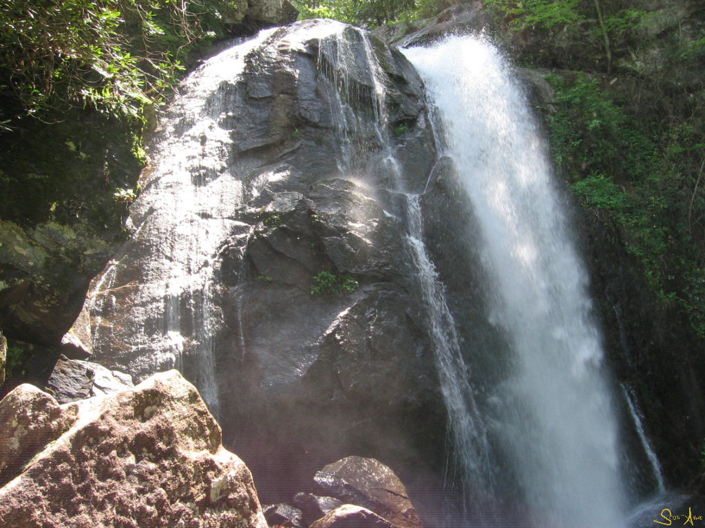 Self-Authored shot of High Shoals Falls, April 28, 2006.